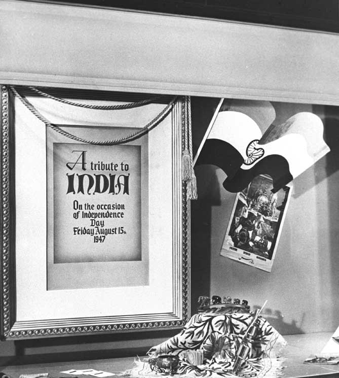 This giant display window was put up by Simpson's flagship department store in Toronto with a chain of branches throughout Canada. This was but one but one of the many instances which revealed the genuine interest the people of Canada have in the progress of India. The store, located at 176 Yonge Street, was renamed Hudson's Bay in 1991.